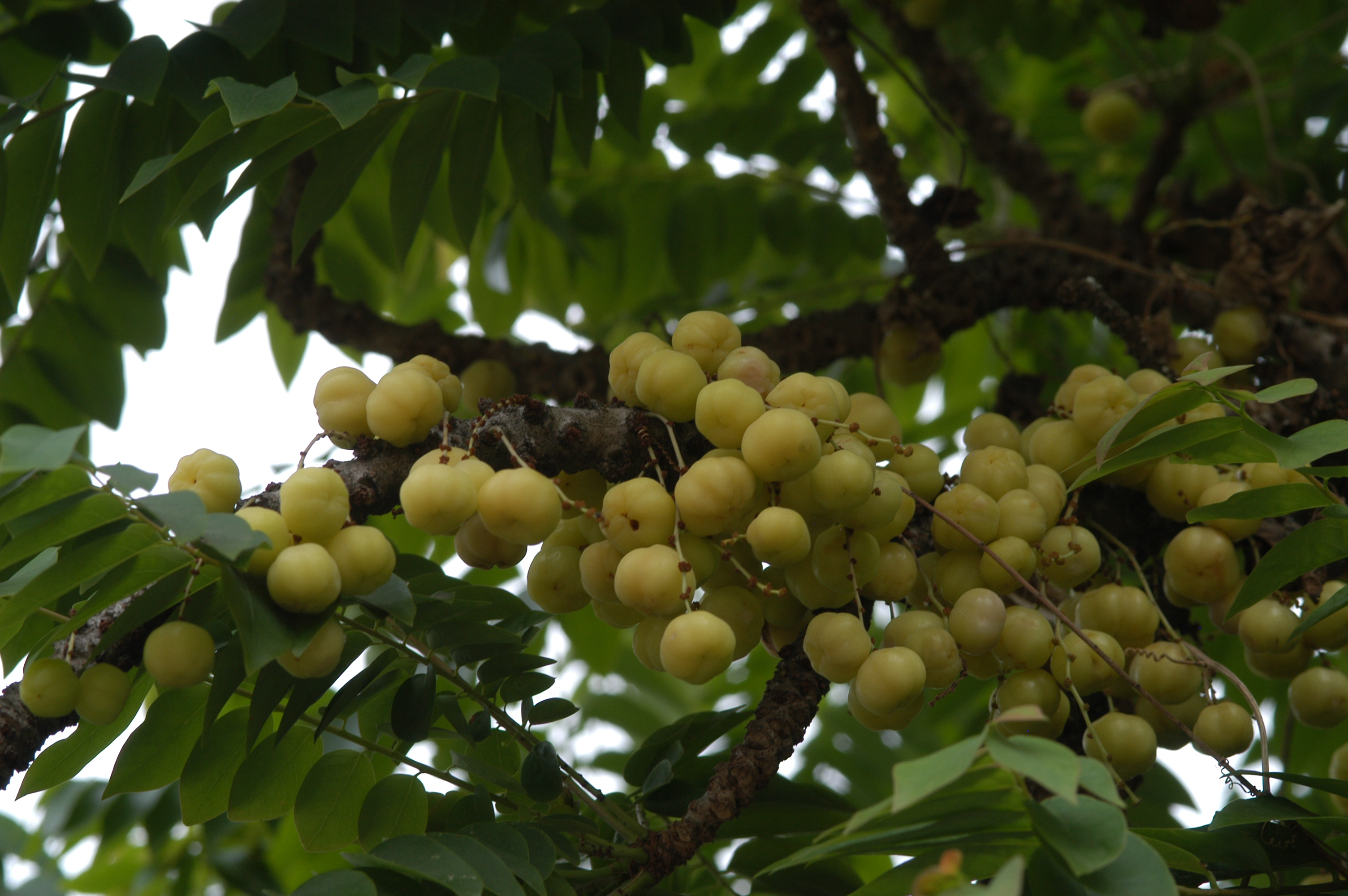 Phyllanthus acidus